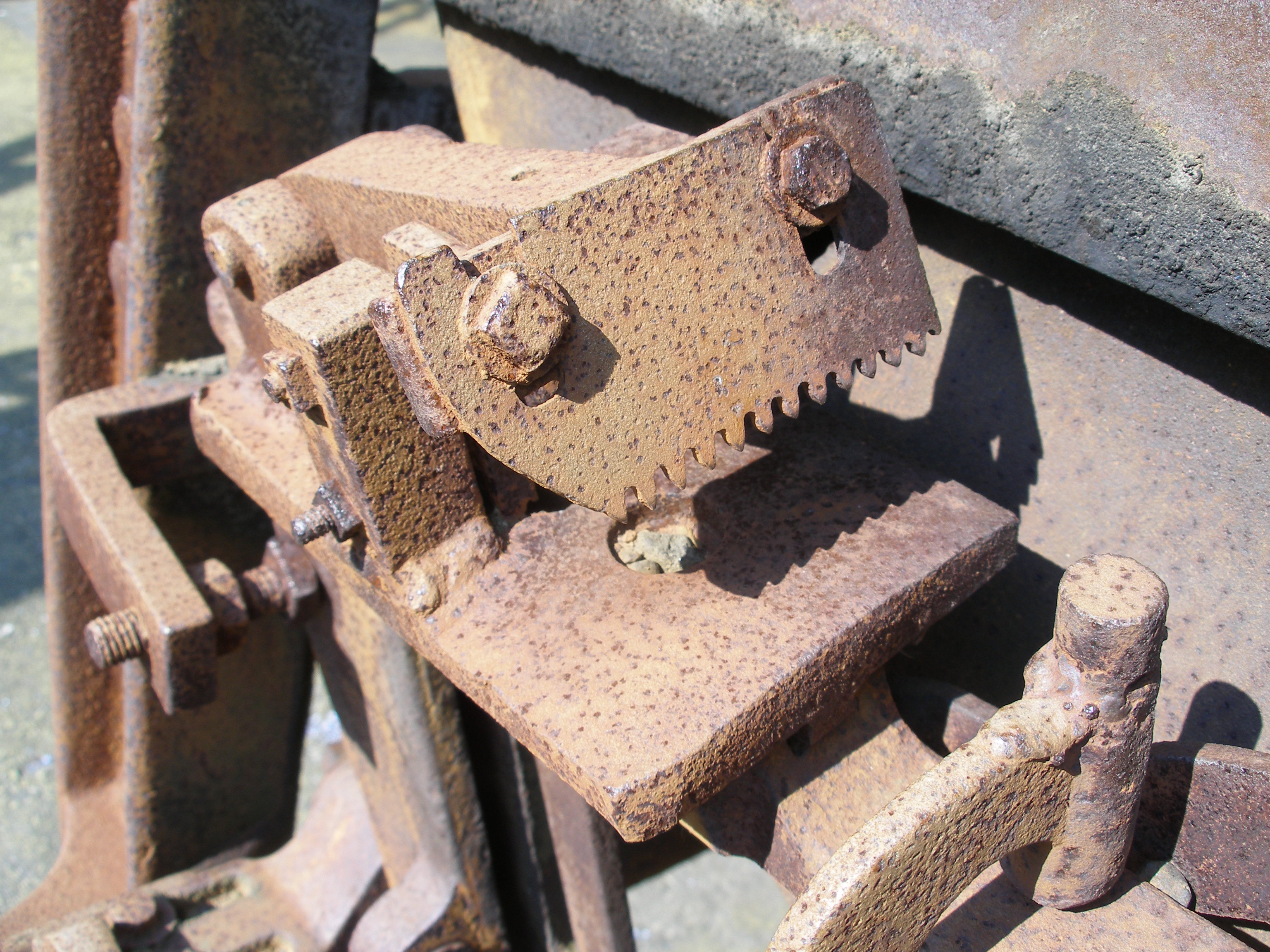 A piece of rusty machinery looks like a face